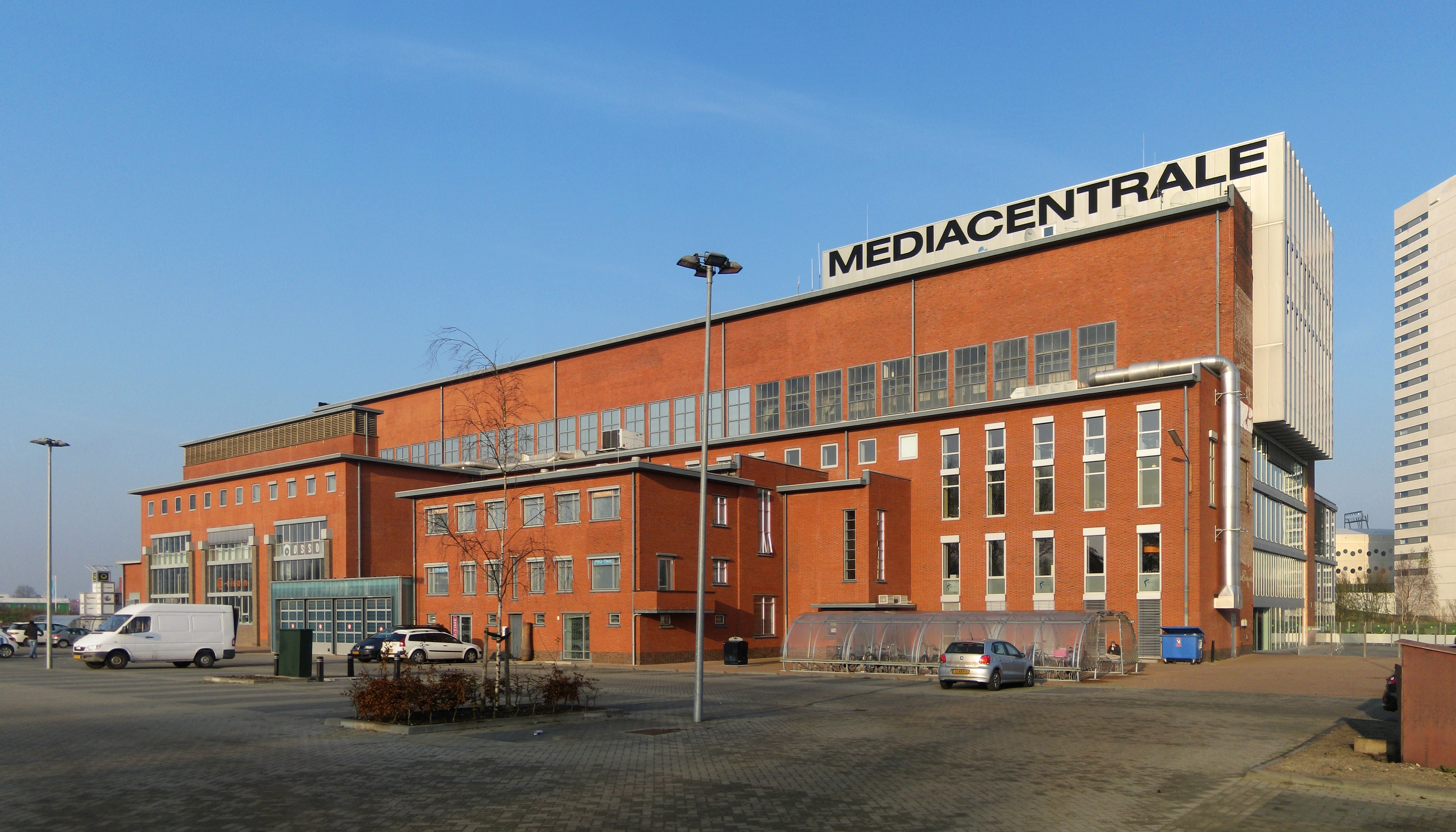 Former power plant (1931-'32) in the Dutch city of Groningen.